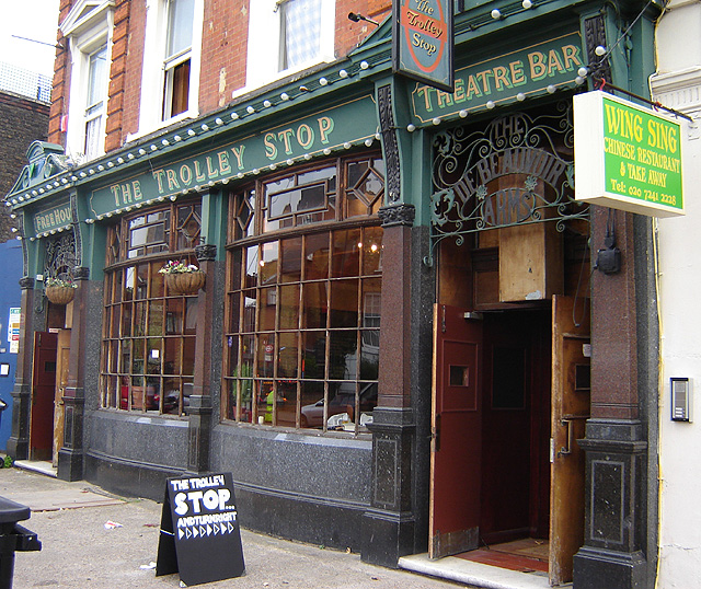 The Trolley Stop pub (once The De Beauvoir Arms), Stamford Road, De Beauvoir Town, Hackney, London. 9 October 2005.